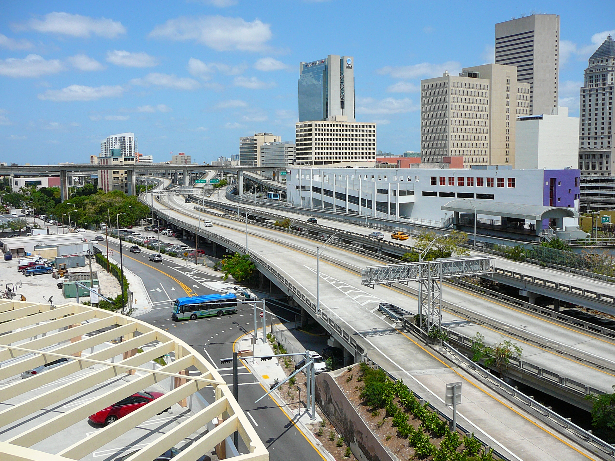 Digital photo taken by Marc Averette. The Downtown Distributor in downtown Miami 5/14/2008